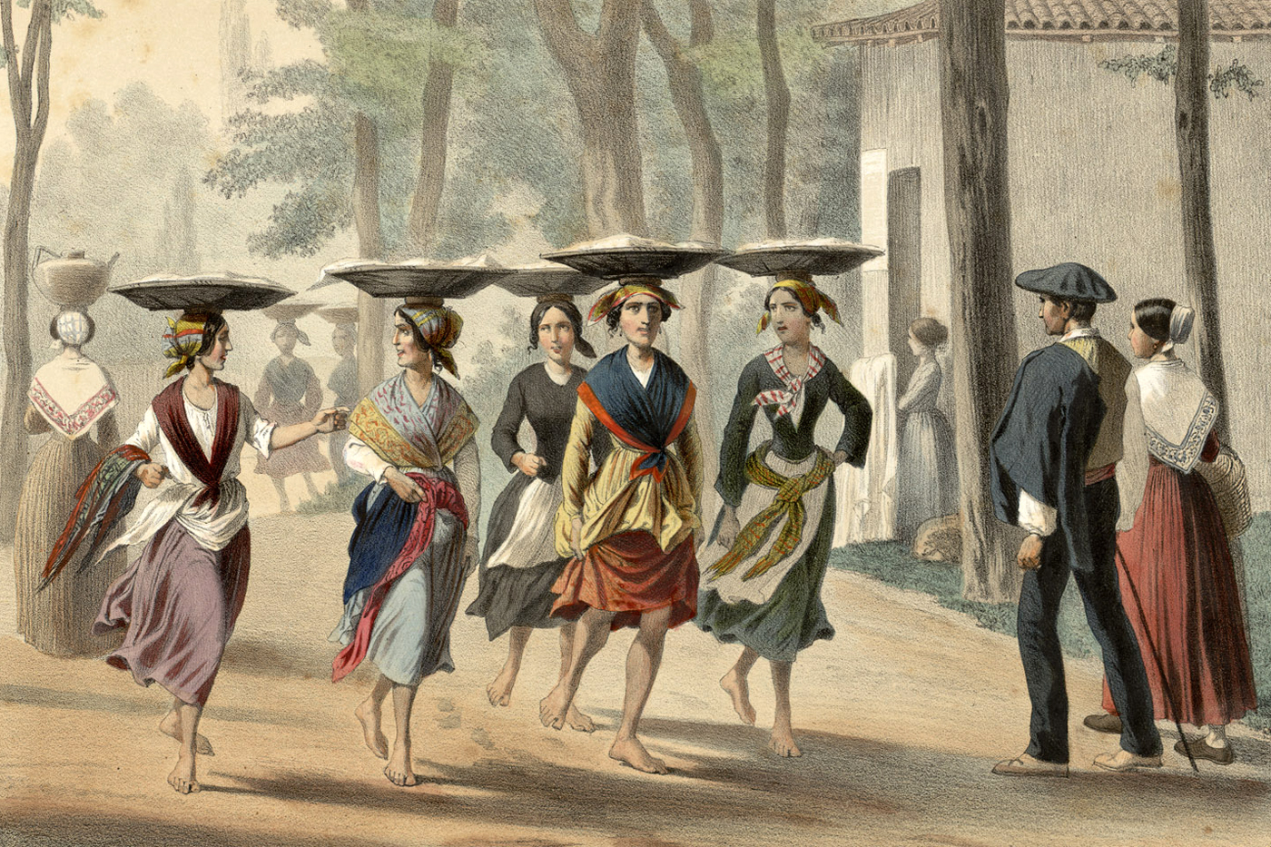 Bayonne, women selling fish; cropped version